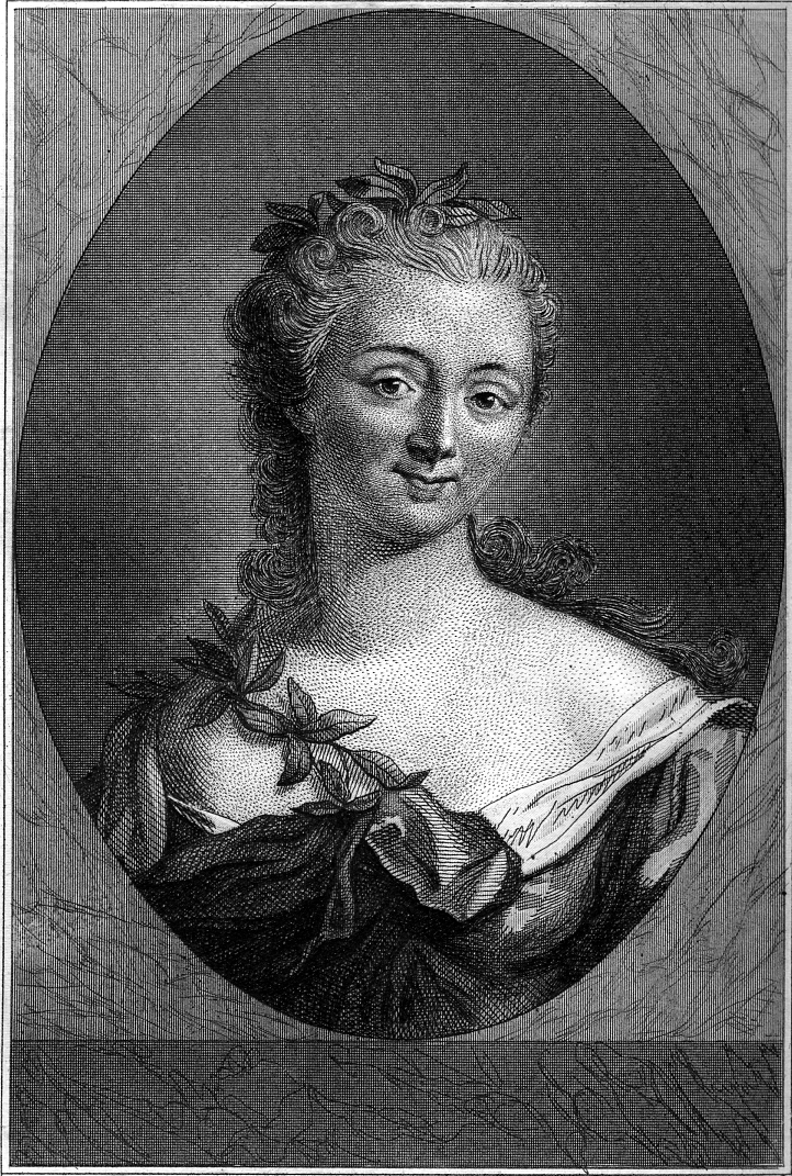 Portrait of Anne-Marie Du Boccage (1710-1802), French translator, poetess and playwright